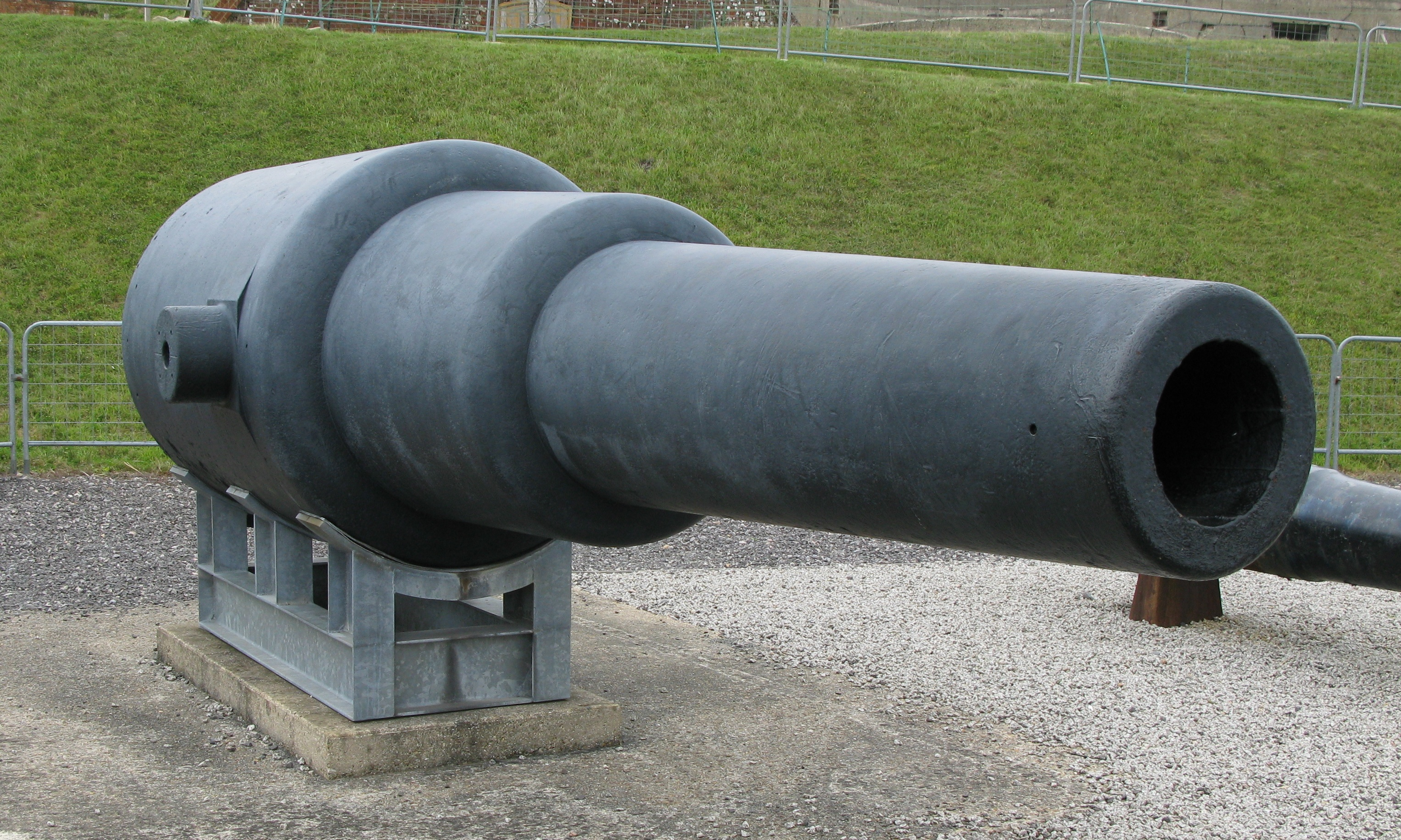 RML 12.5 inch 38 ton gun. This muzzle loading rifled gun on display at Fort Nelson, Portsmouth was built by the Royal Gun Factory in 1876 and was used at the Cliff End battery on the Isle of Wight.